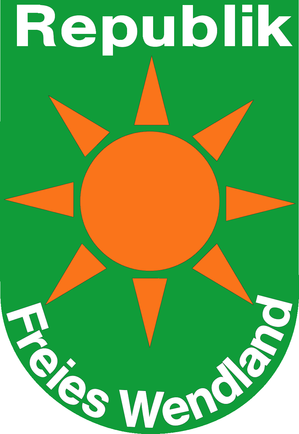 Coat of arms of Republic Free Wendland